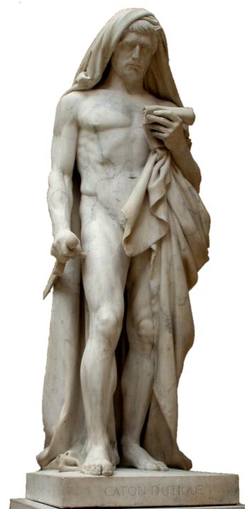 Caton d'Utique lisant le Phédon avant de se donner la mort (Cato of Utica reading the Phedo before comitting suicide). Marble, 1840. The work was started by Roman in 1832 and carried on by Rude after Roman's death in 1835.